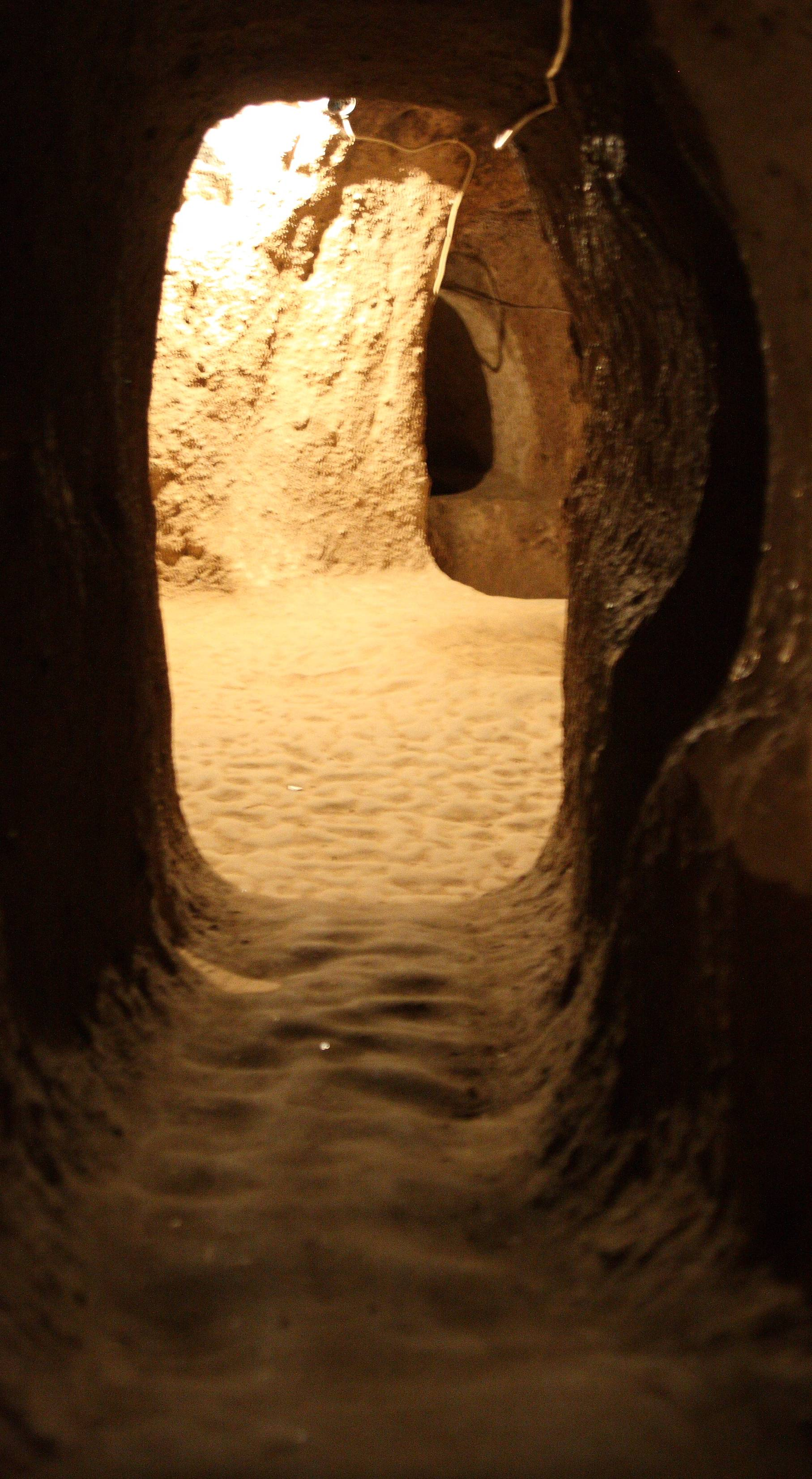 Cappadocia is one of the prettiest areas of Turkey - rich in scenery and in history. About 1600 years ago, Christians fled the Romans and then Muslims and hid in this area - often in underground cities - absolutely fascinating. The natural scenery is also unique - laced with volcanos and looking like the surface of the moon. The rock formations are called Fairy Chimneys - very impressive. I took these photos in October 2008.